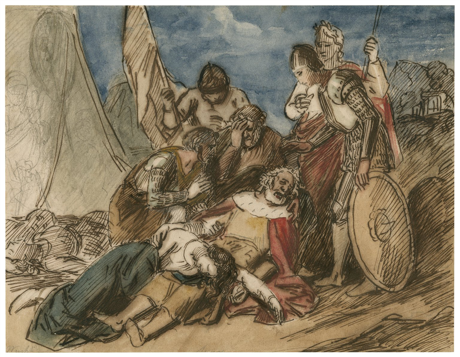 The death of King Lear, Cordelia already dead in his arms. Drawing by John Massey Wright in ink, pencil, and watercolor of Act V, Scene iii.